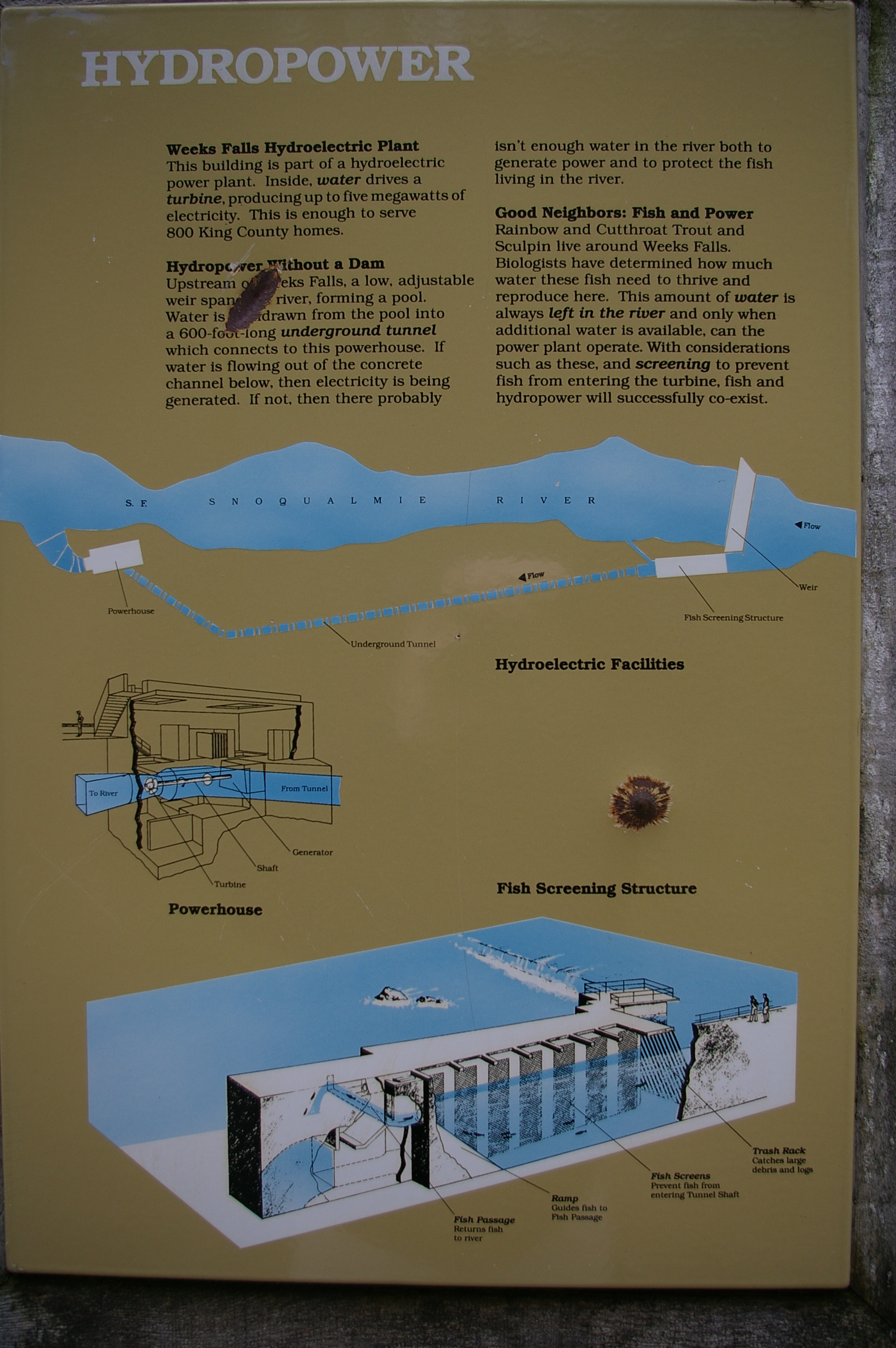 Sign next to Weeks Falls Hydro Station